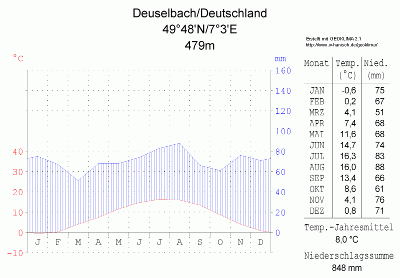 climate chart in the format by Walther and Lieth, metric, °Celsisus and millimeters, made with Geoklima 2.1